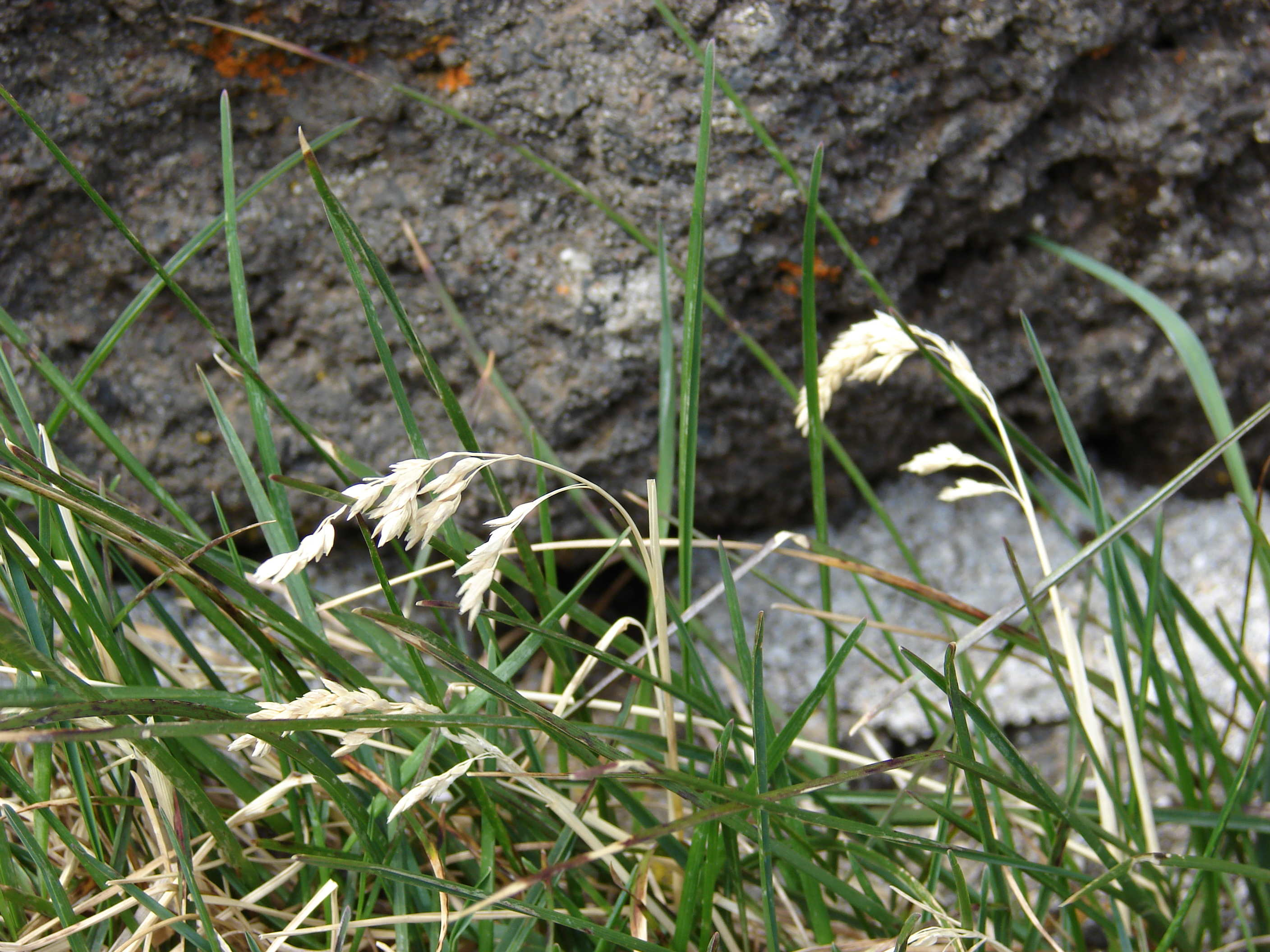 Poa pratensis (habit). Location: Maui, Kalahaku Haleakala National Park